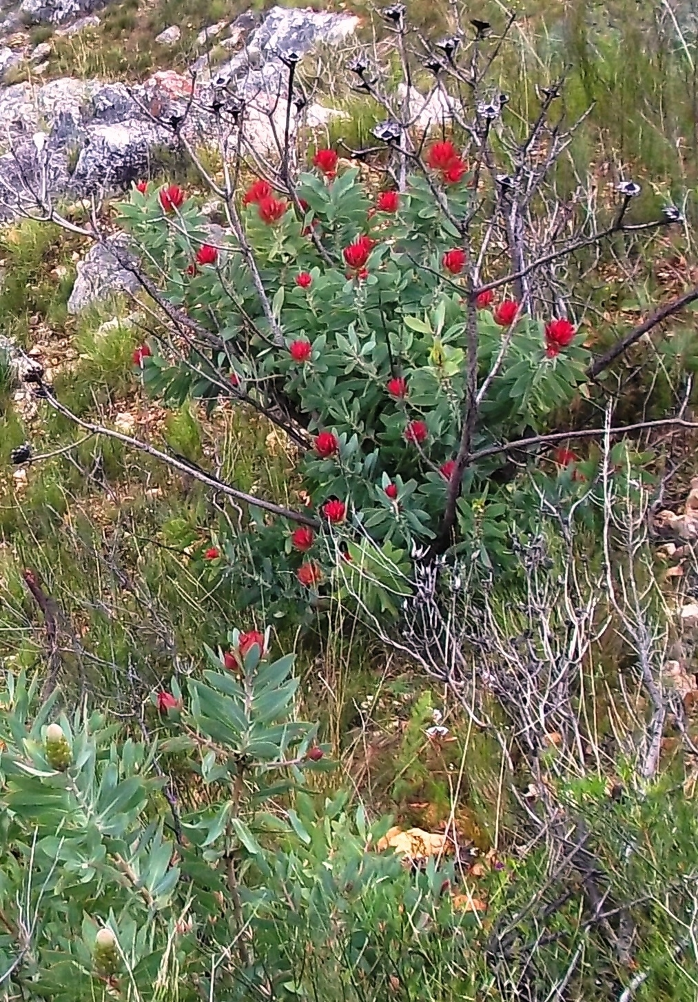 Burnt Protea nitida - new growth after fire